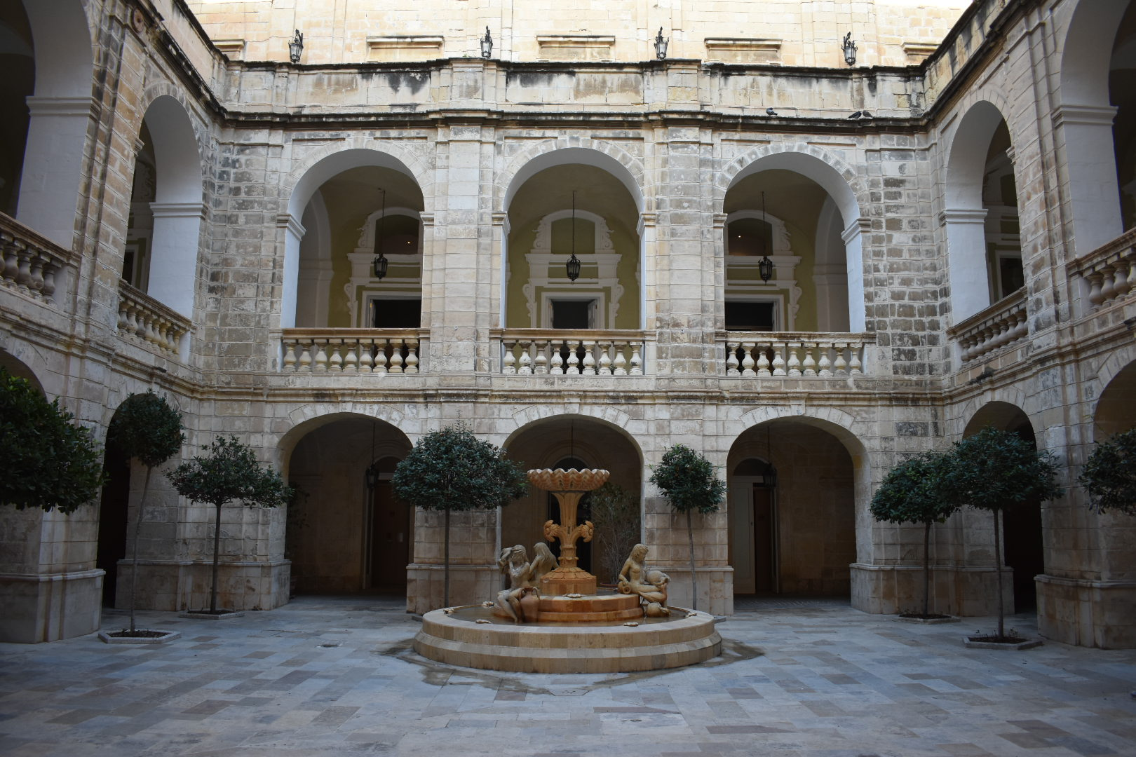 Auberge de Castille